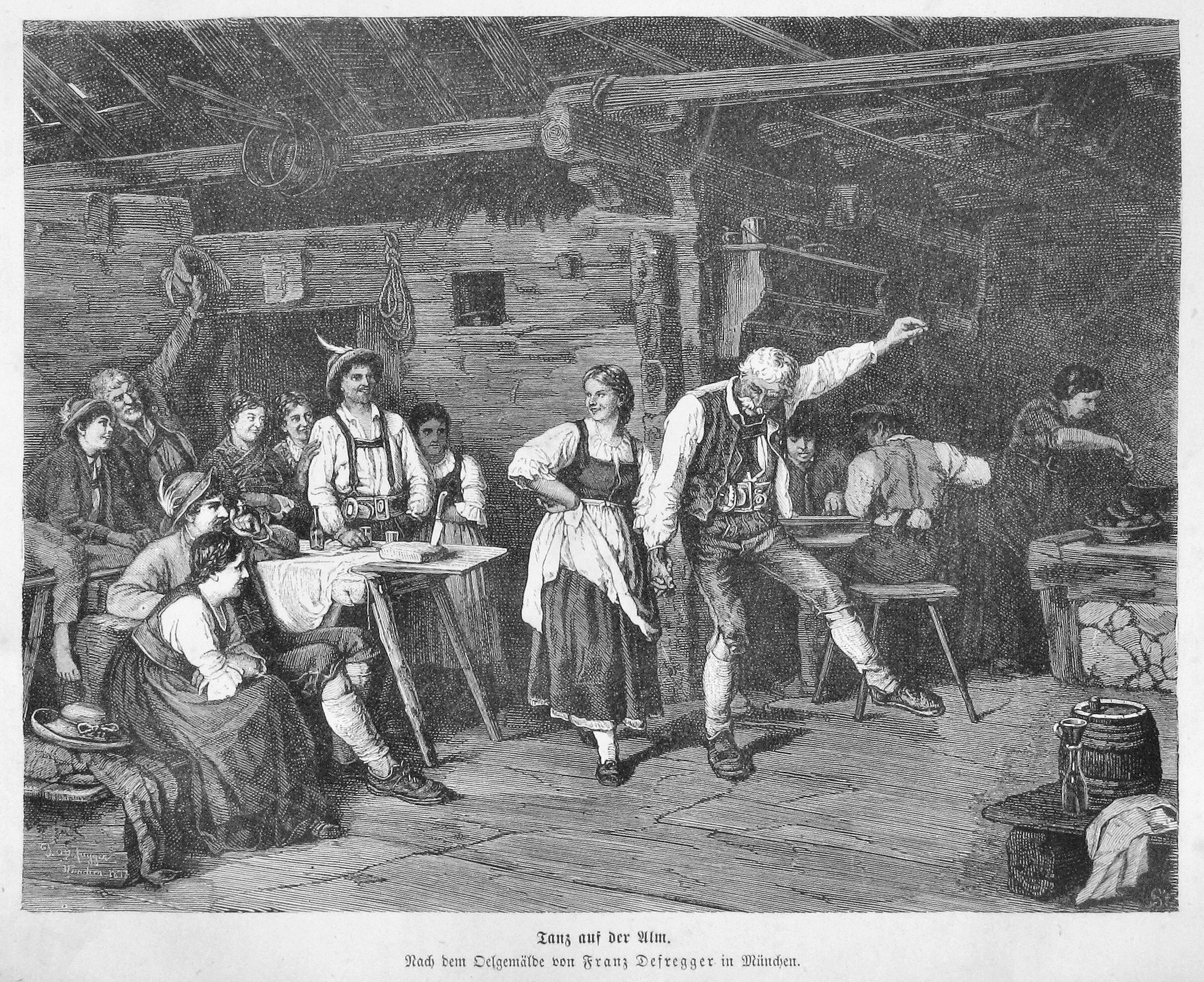 caption: "Tanz auf der Alm. Nach den Oelgemälde von Franz Defregger in München."